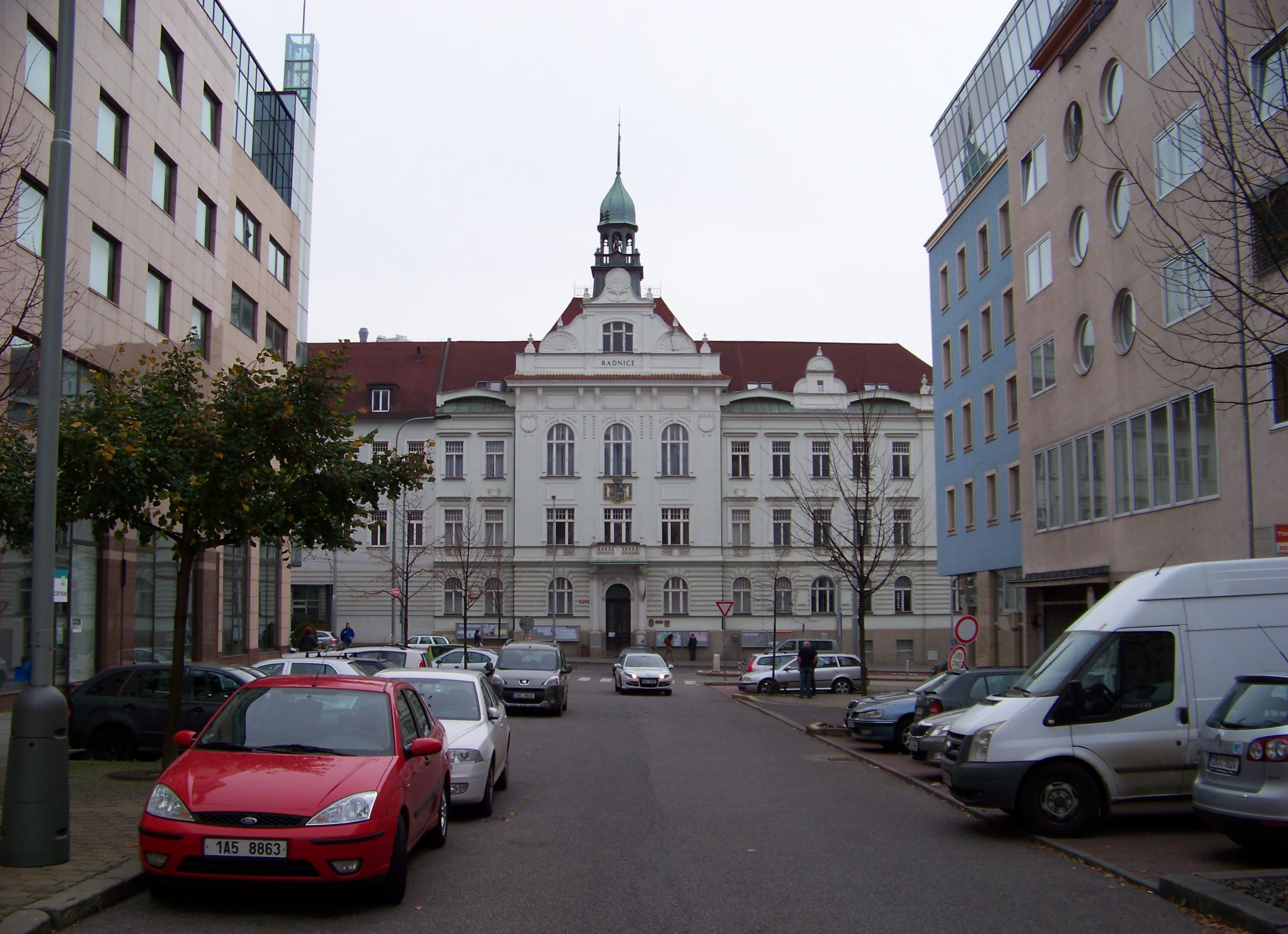 Prague-Vysočany, Czech Republic. Bratří Dohalských street, a view of the town hall in Sokolovská street.